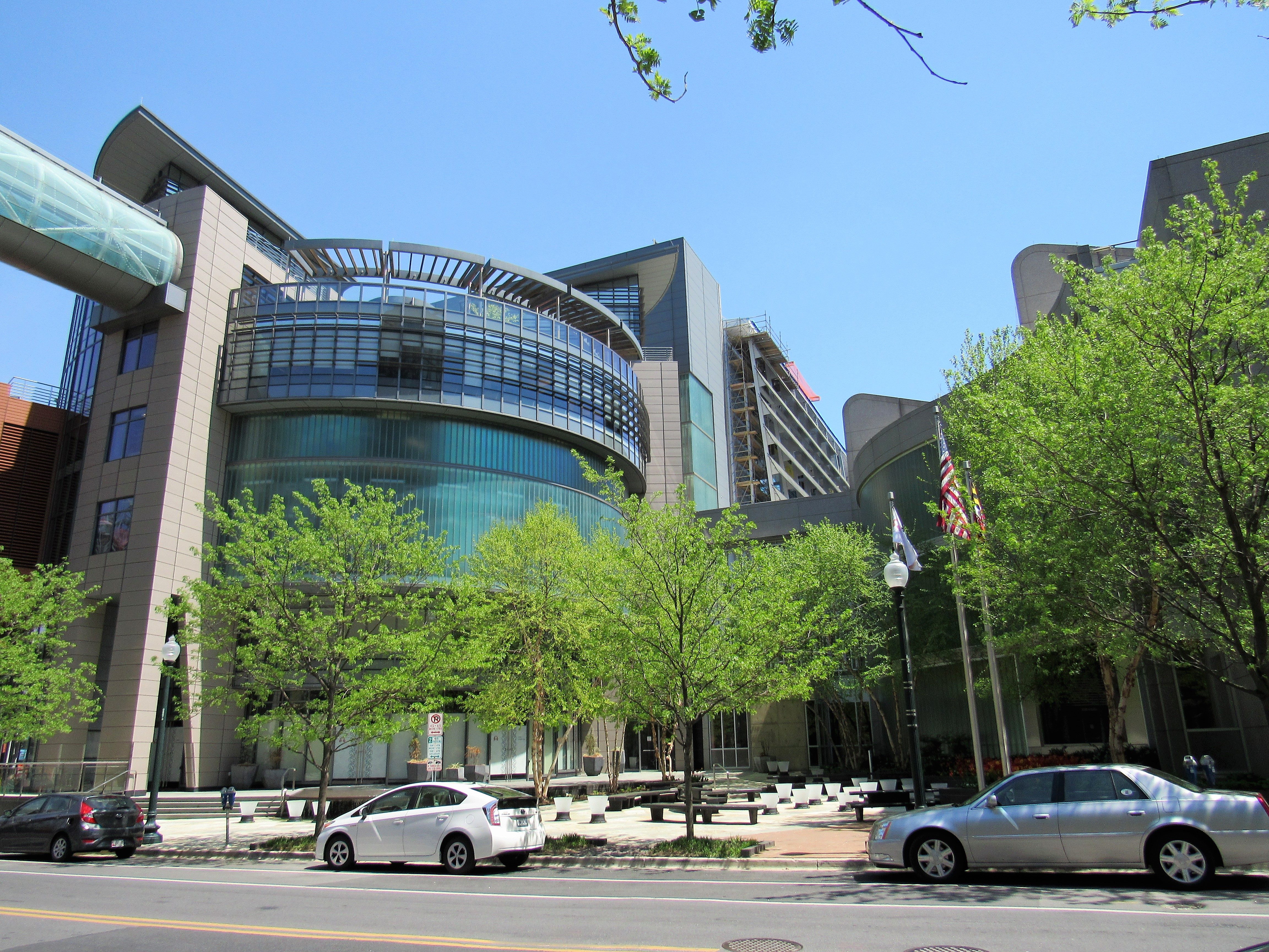 Headquarters and Laboratory Complex of United Therapeutics in downtown Silver Spring, Maryland